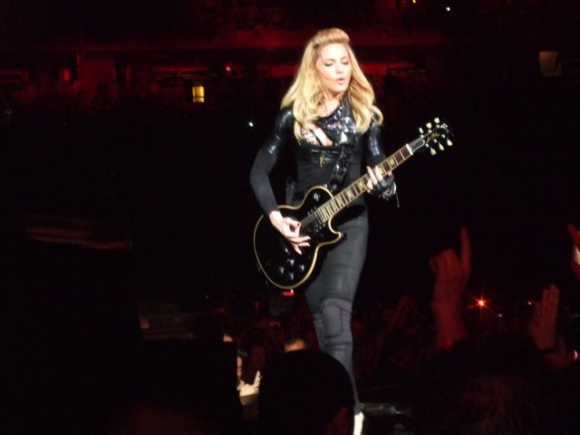 Madonna concert in Barcelona